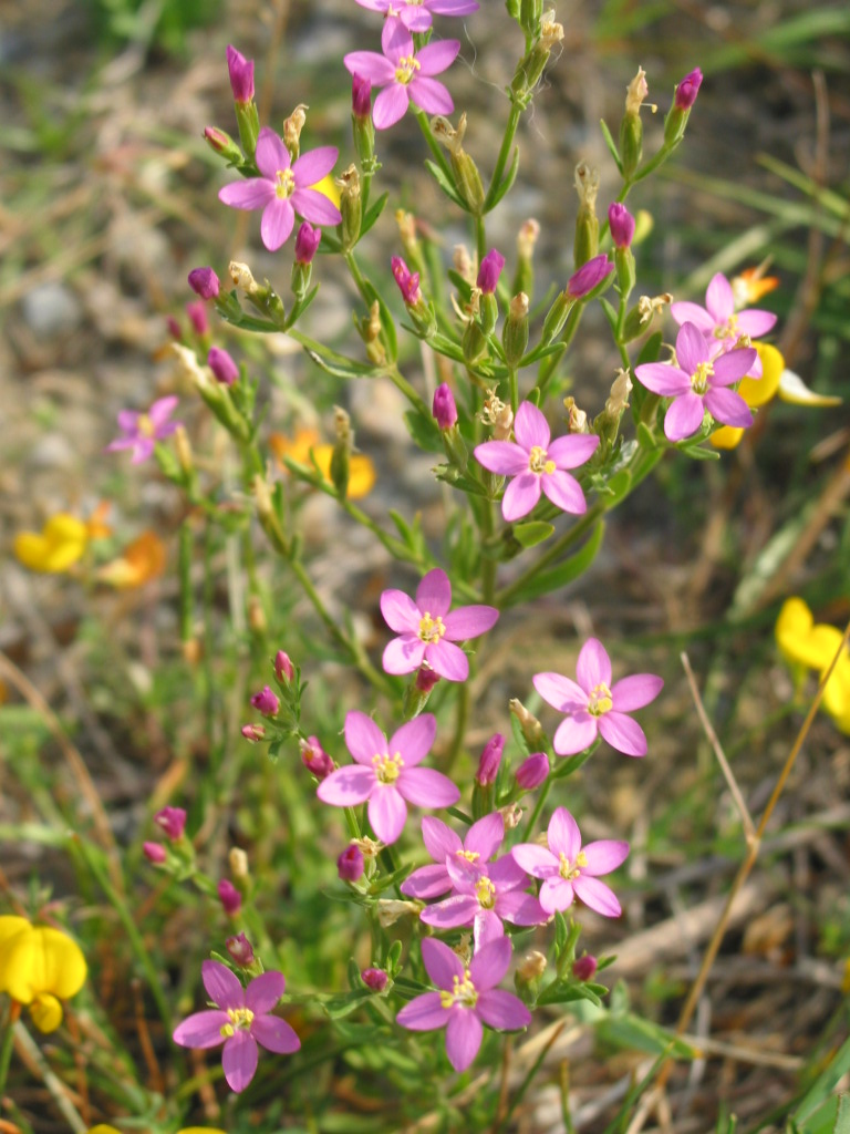 Centaurium littorale